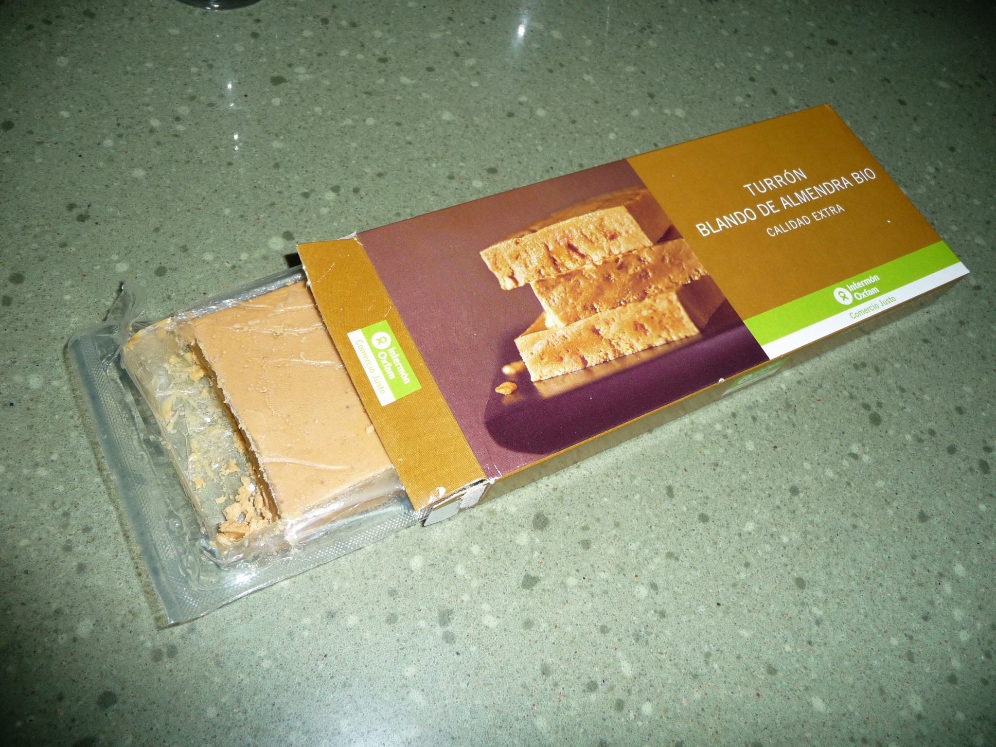 Fair Trade Jijona nougat.